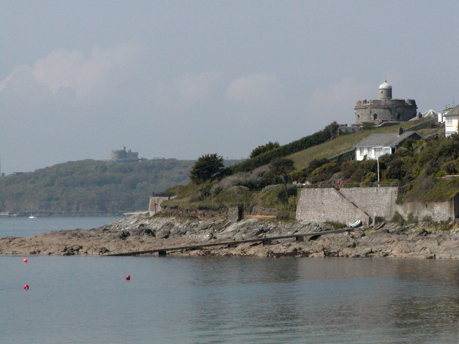 St. Mawes, Cornwall: St. Mawes Castle (foreground) and Pendennis Castle in Falmouth (background)